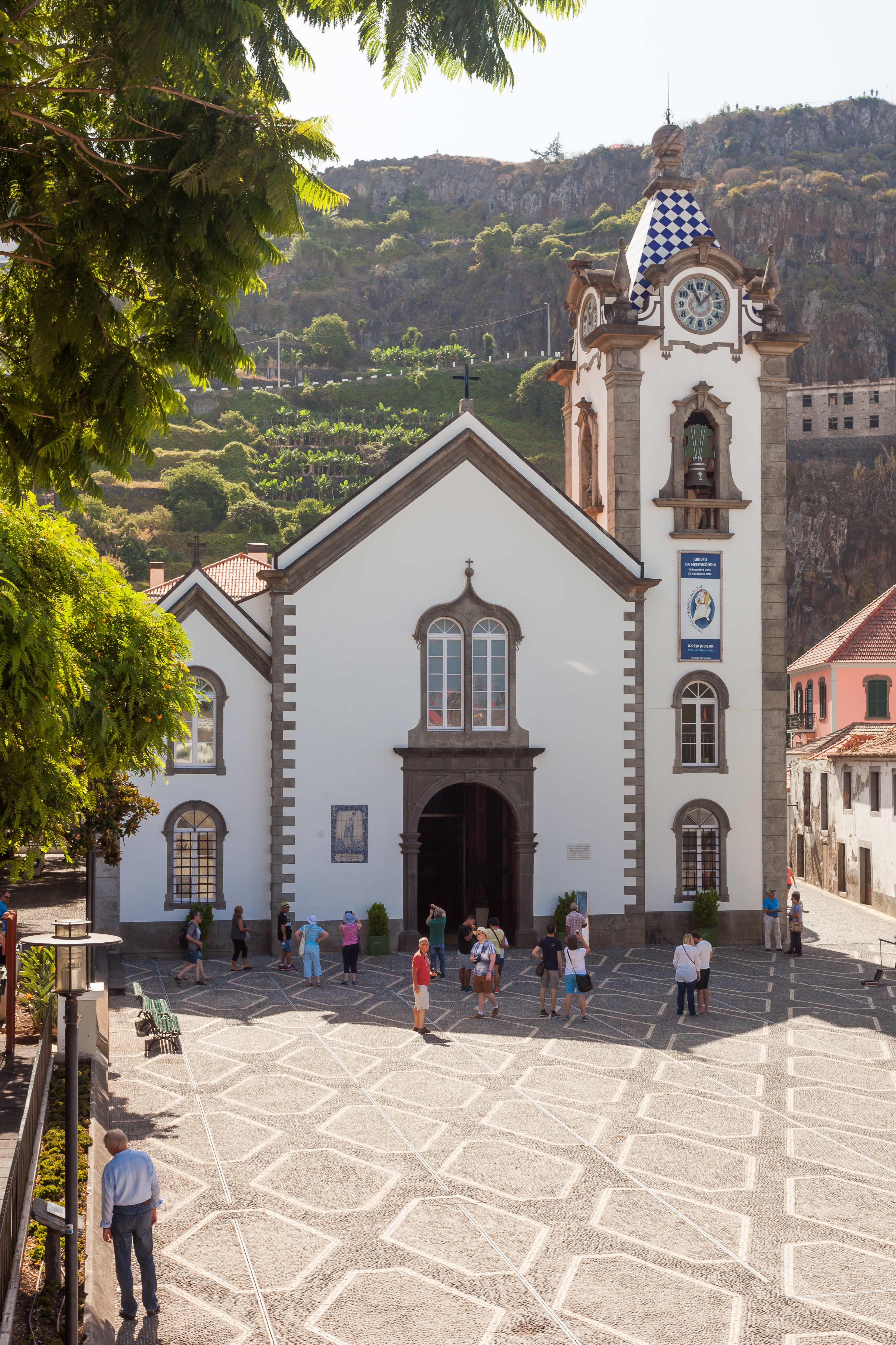 Church of Saint Benedict, Ribeira Brava, Madeira, Portugal.